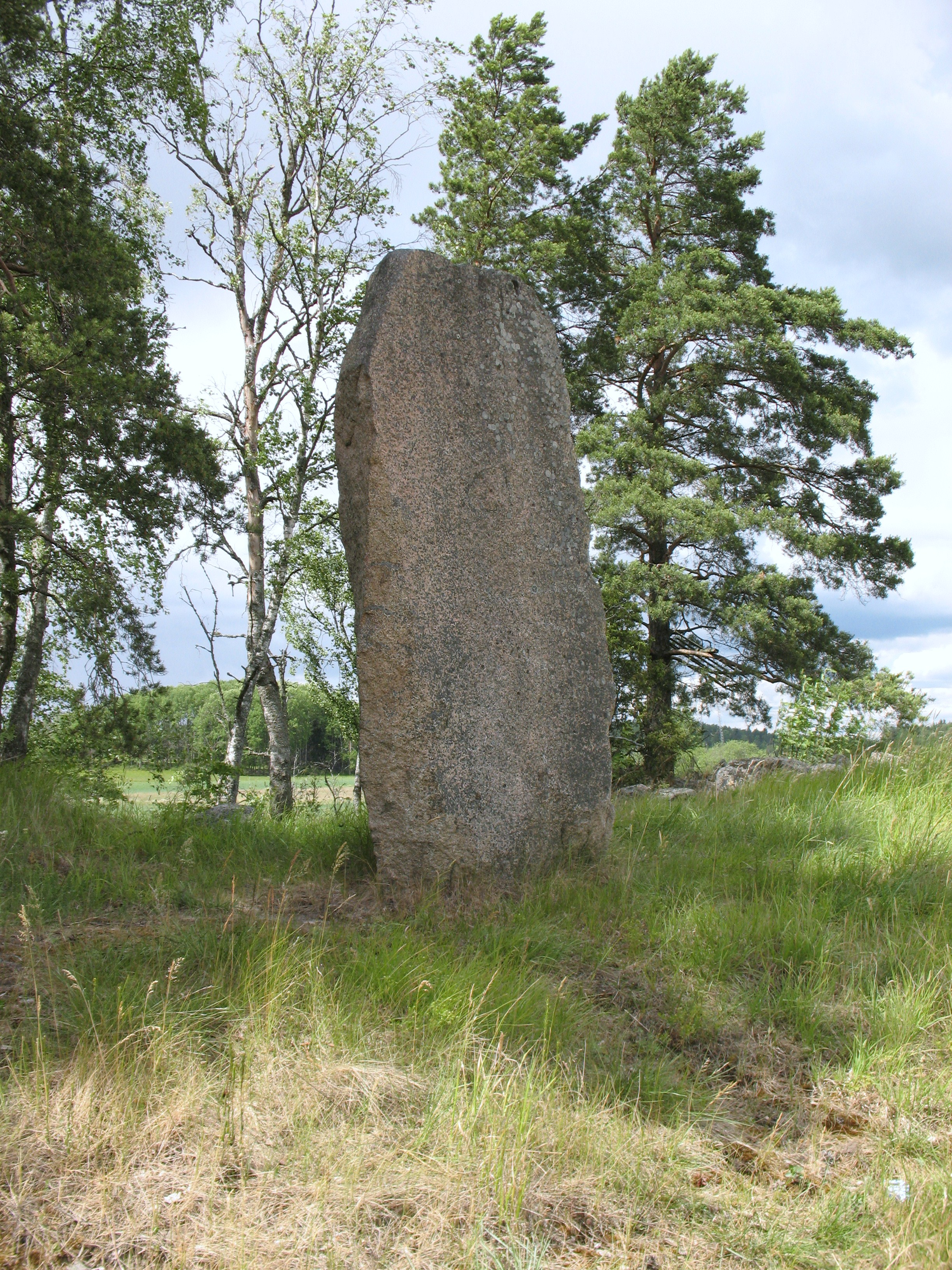 Standing stone inscribed with a cross in Gällsta, Vallentuna. Despite the fact that it does not bear any runes, it is listed in Upplands runinskrifter as U 230.